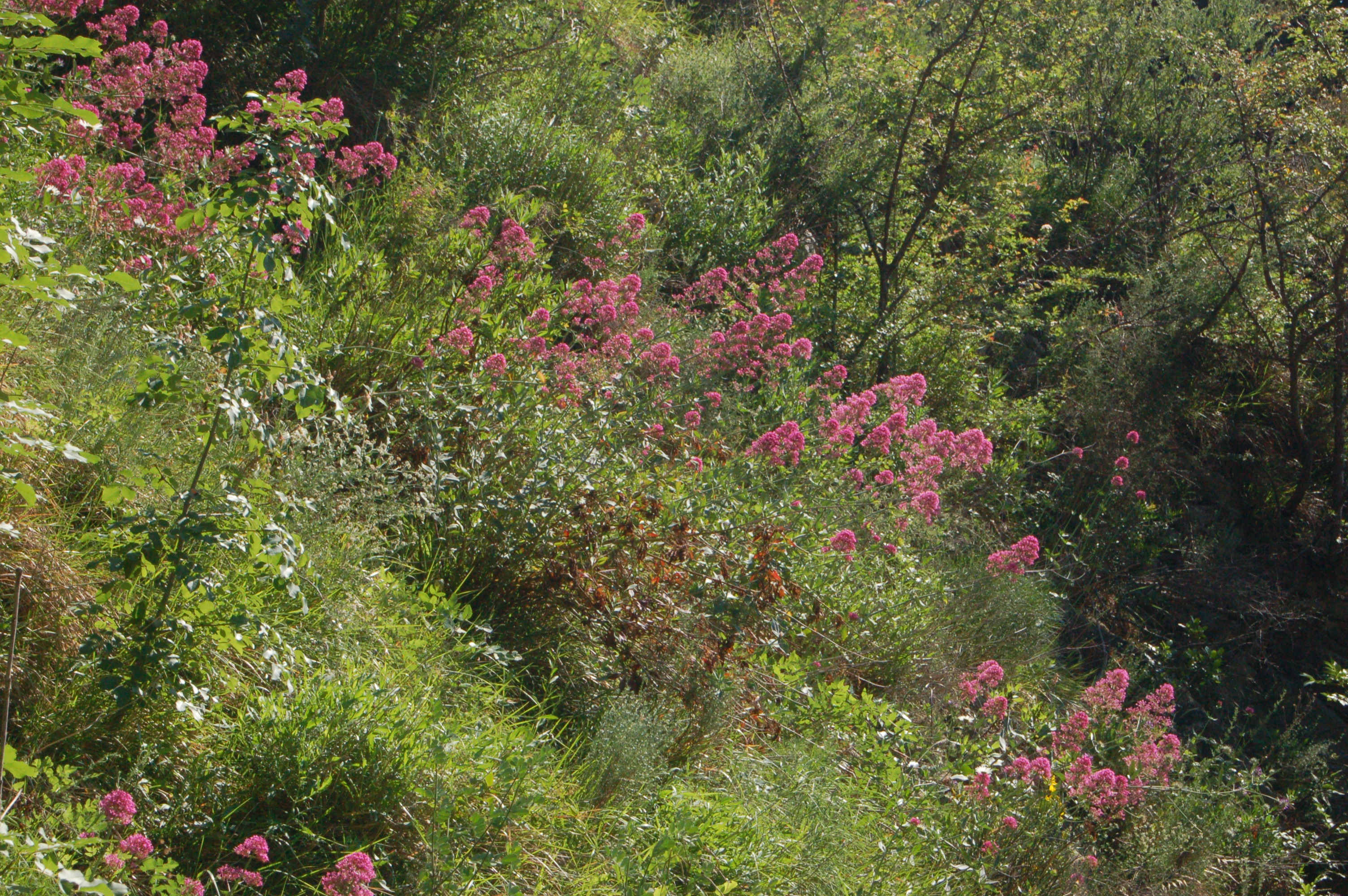 Preferred habitat of Macroglossum stellatarum - Woodland edge with Centranthus ruber in the surroundings of Genova, Italy